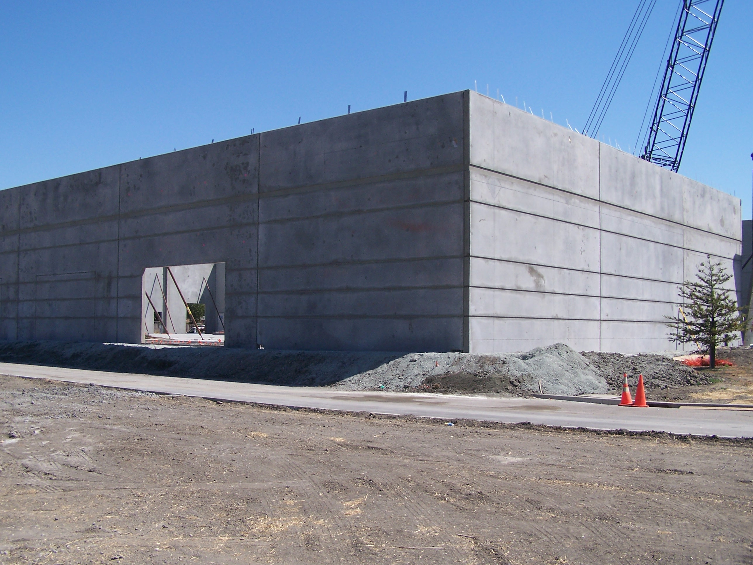 Marich Confectionery Building